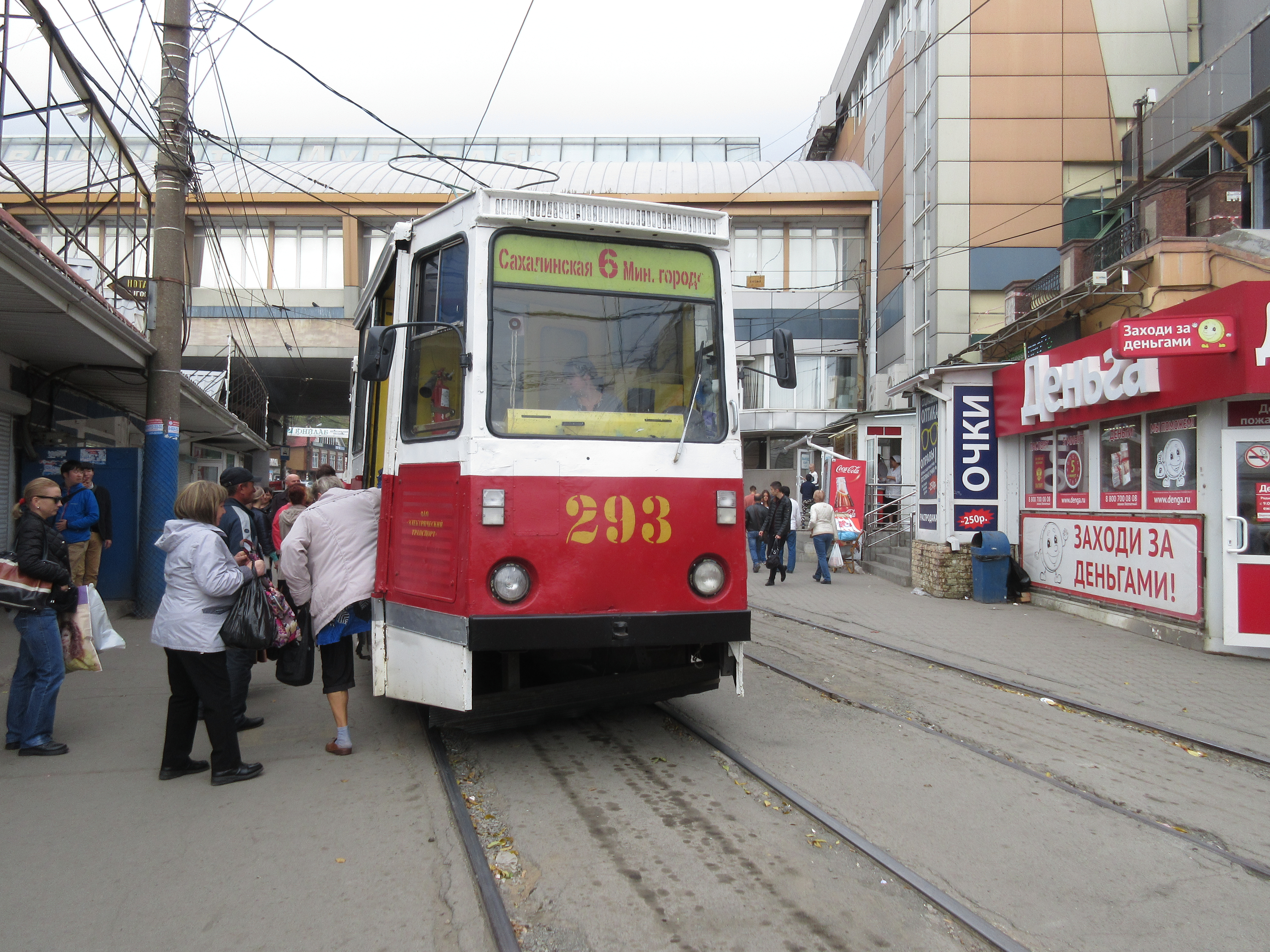 Tram KTM-5 № 293 on Rugovaya stop in Vladivostok